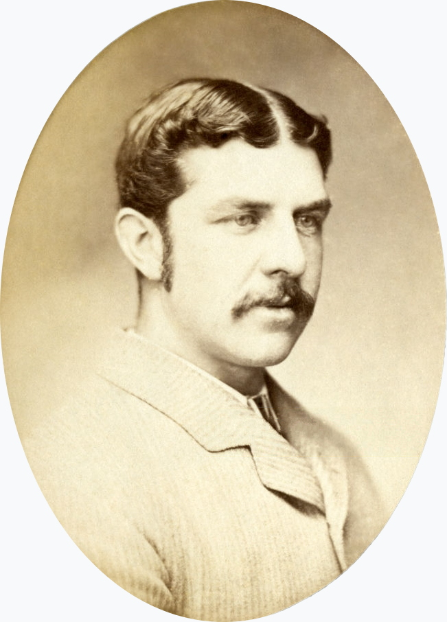 Cricketer Vernon Royle who played for Oxford University and Lancashire County Cricket Club and was also a member of The Lord Harris XI cricket team, which toured Australia and New Zealand, circa 1878-1879.